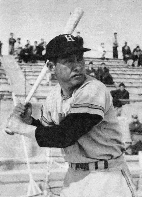 Katsuki Tokura